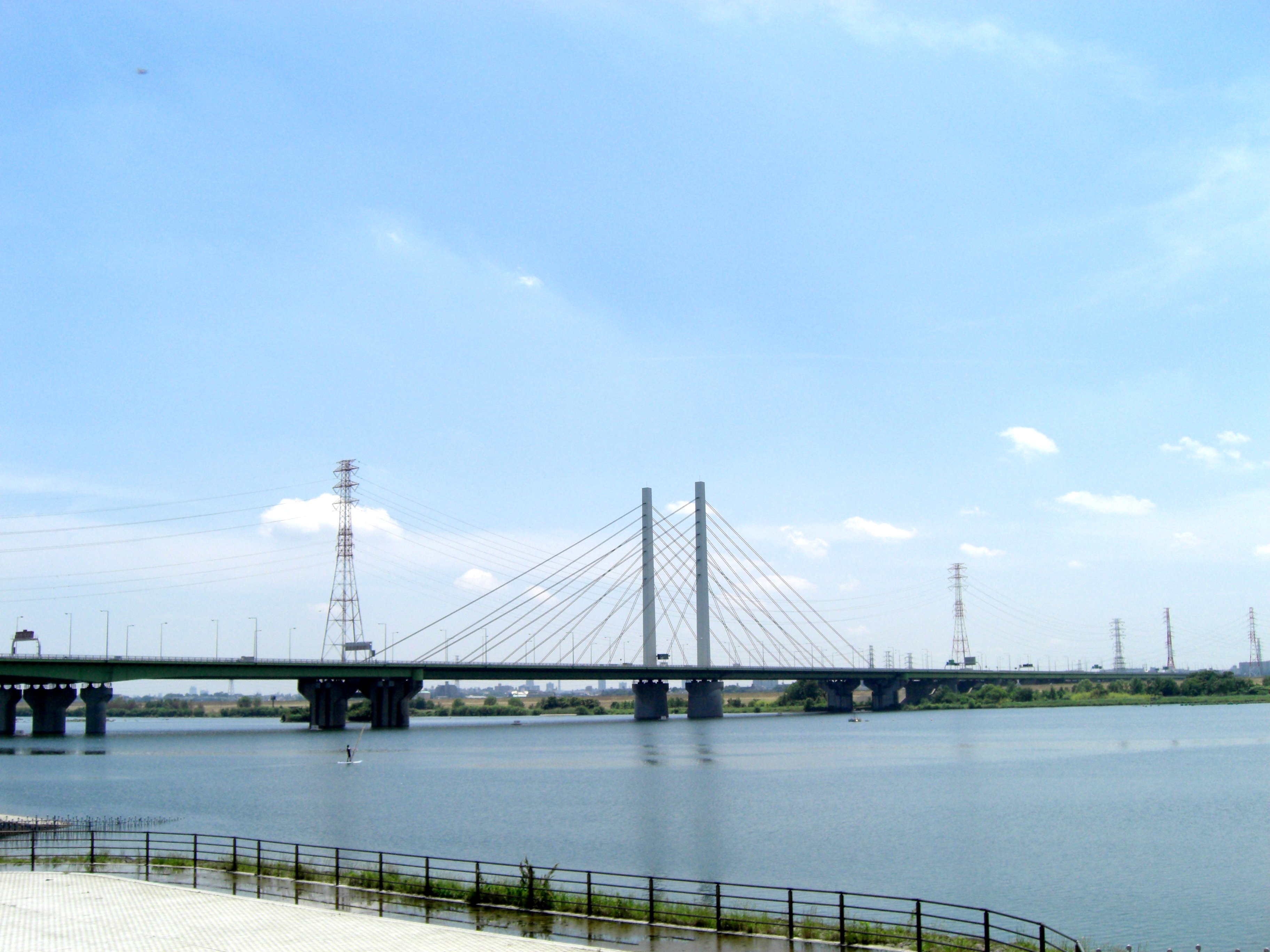 The Sakitama Bridge which hangs over the Saiko